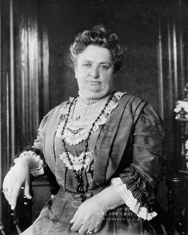 Judith Ellen Foster (1840-1910)